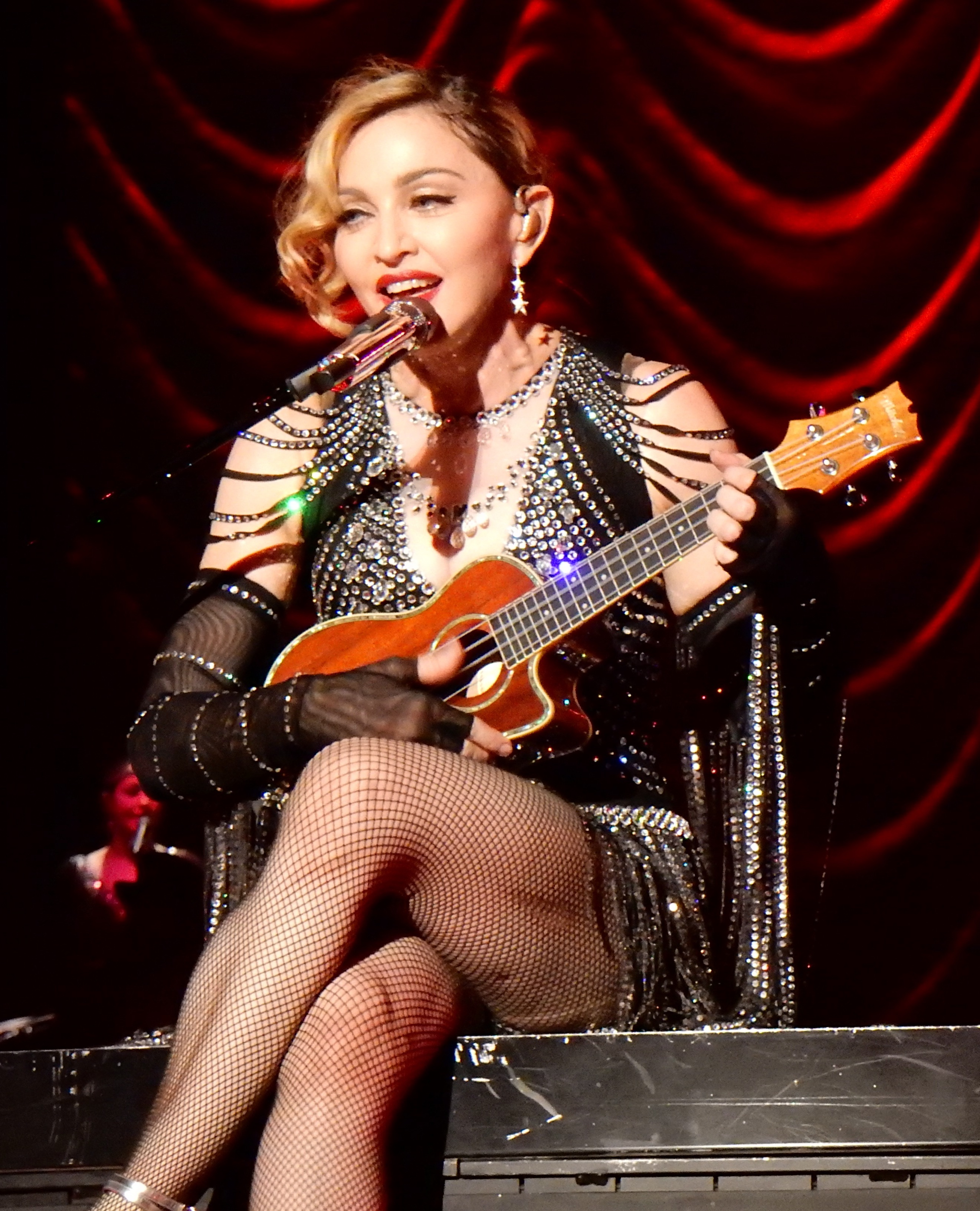 Madonna - Rebel Heart Tour Cologne 2 Madonna - Rebel Heart Tour Cologne 2